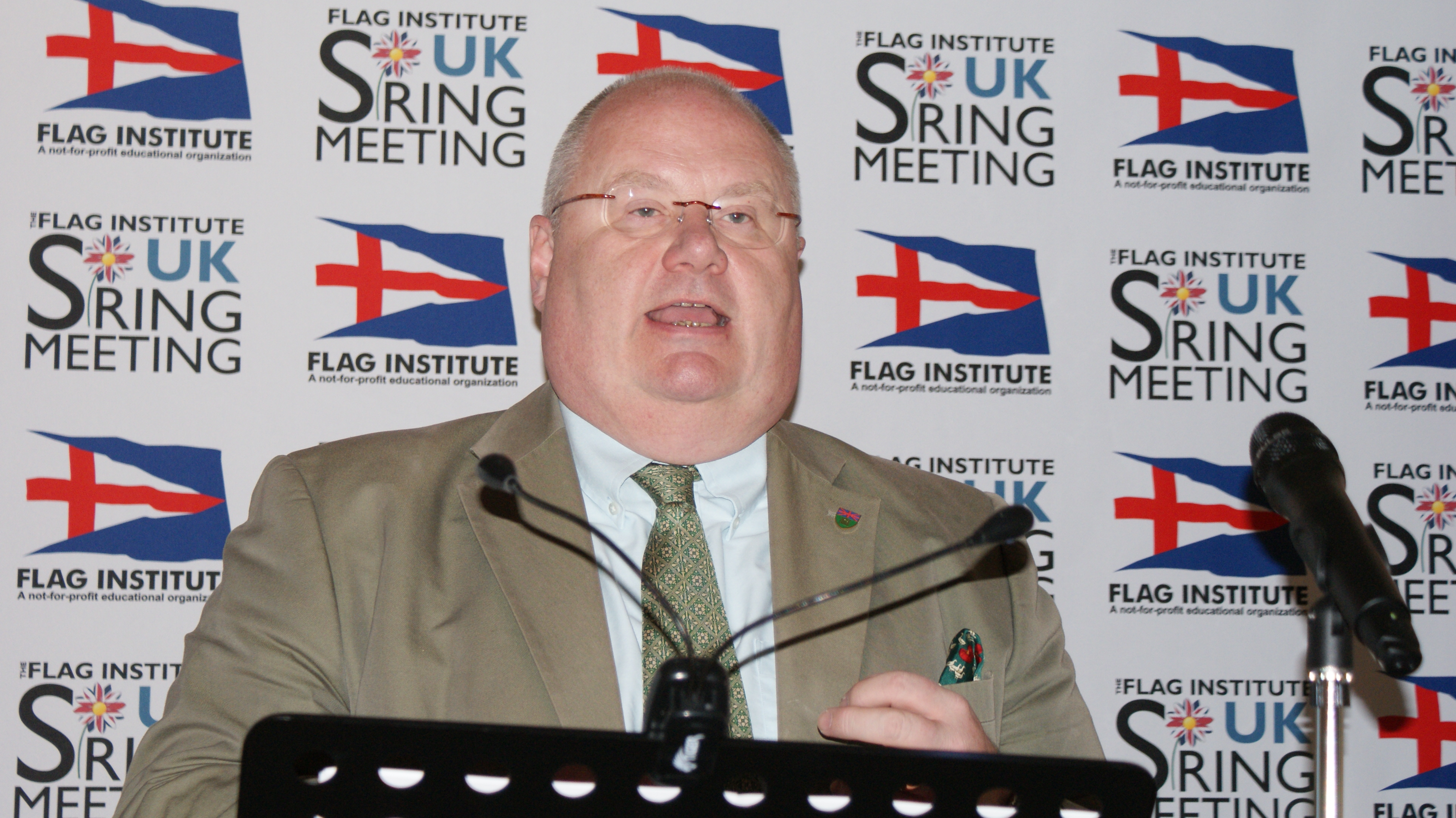 Eric Pickles delivering the keynote address to the Flag Institute Spring Meeting 2011. Naval Club. Mayfair.